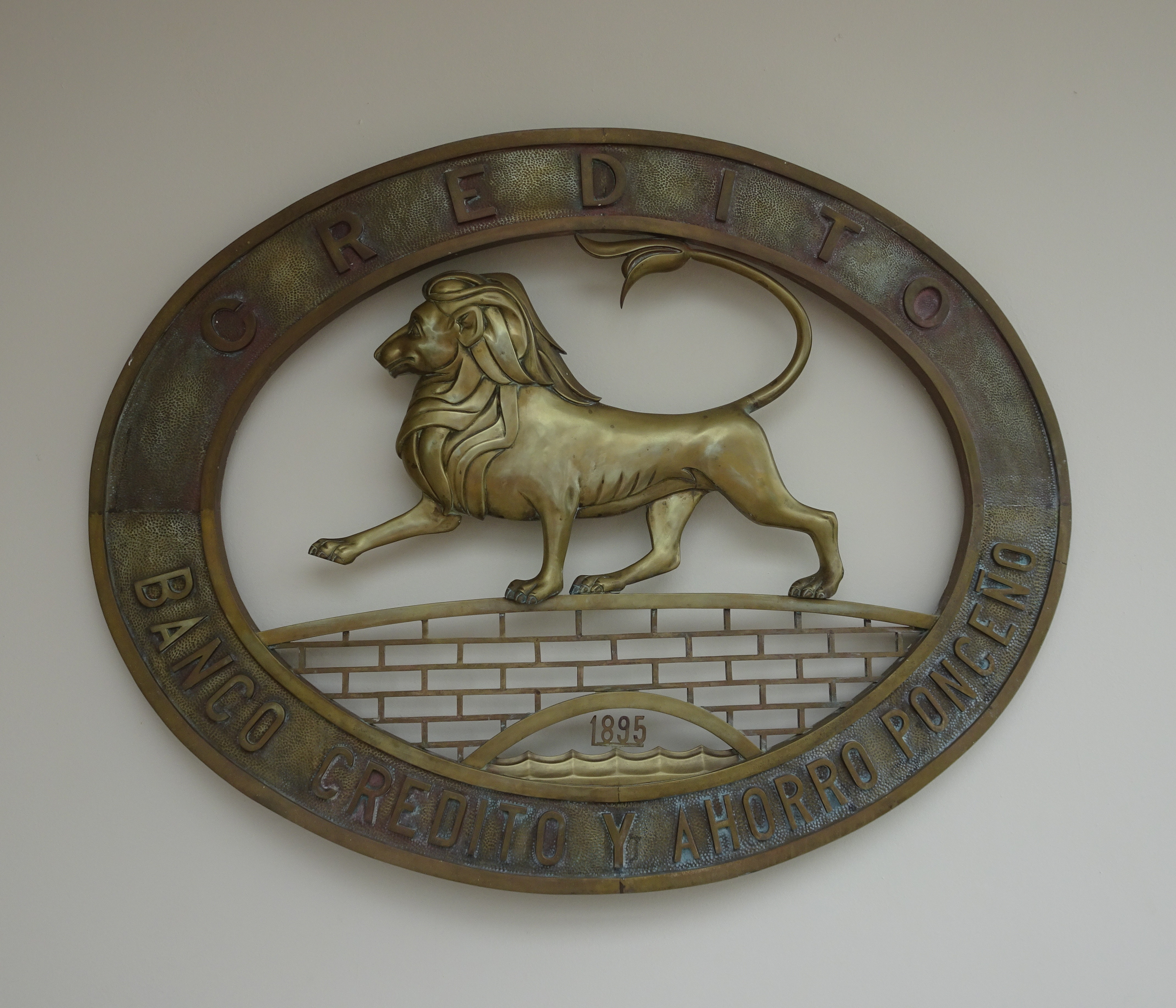 Plaque, Banco Crédito y Ahorro Ponceño, at Museo de la Historia de Ponce, C. Isabel, Ponce, Puerto Rico (DSC02365B)